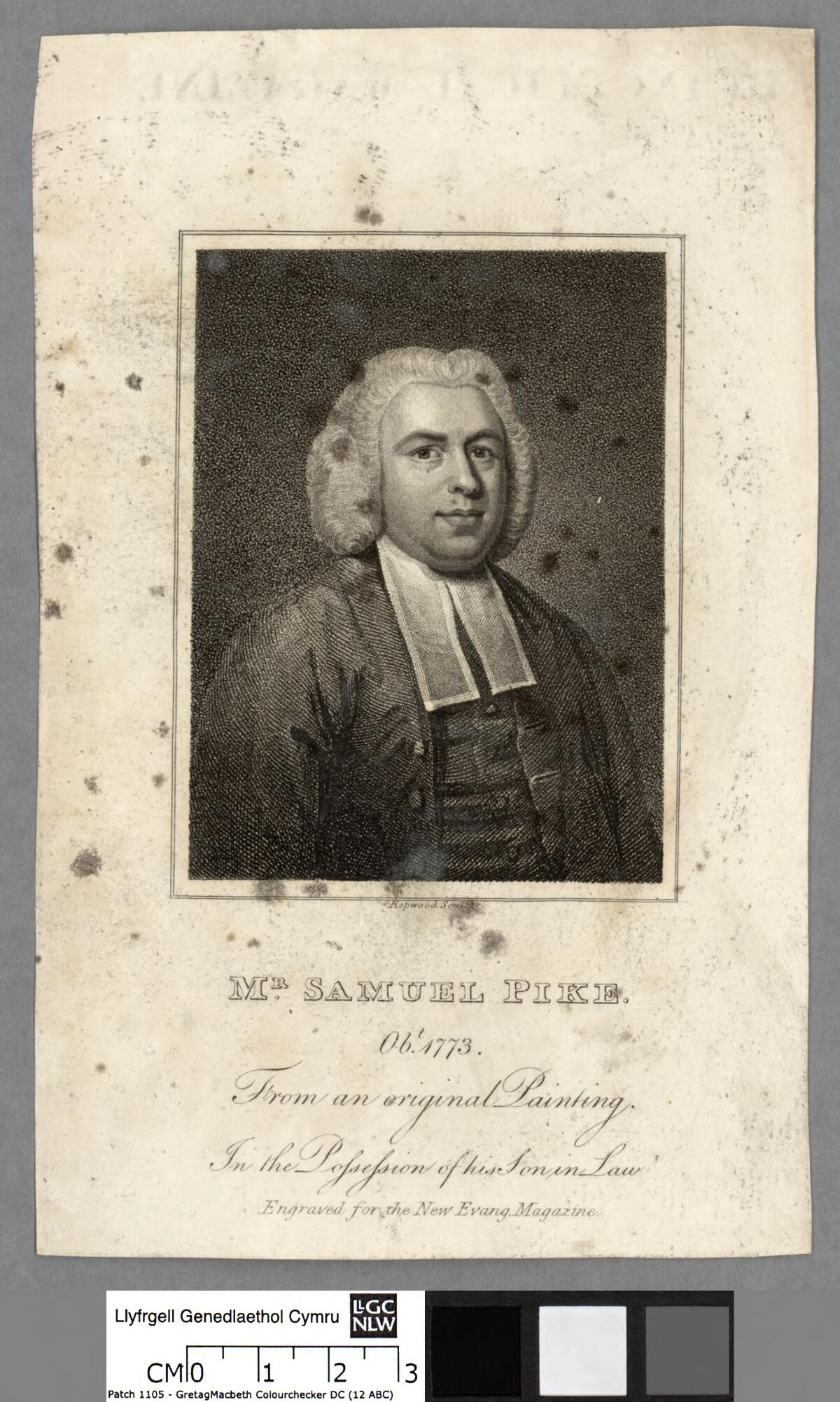 A portrait from the Welsh Portrait Collection at the National Library of Wales. Depicted person: Samuel Pike – Glasite minister